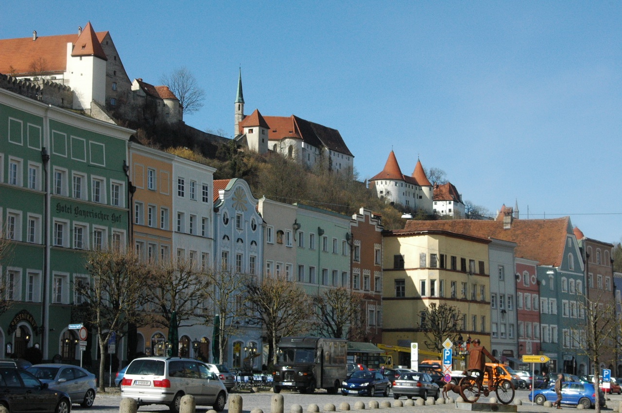 Burghausen, Bavaria: Western side of the main square in the old part of town, the famous Burghausen Castle in the background